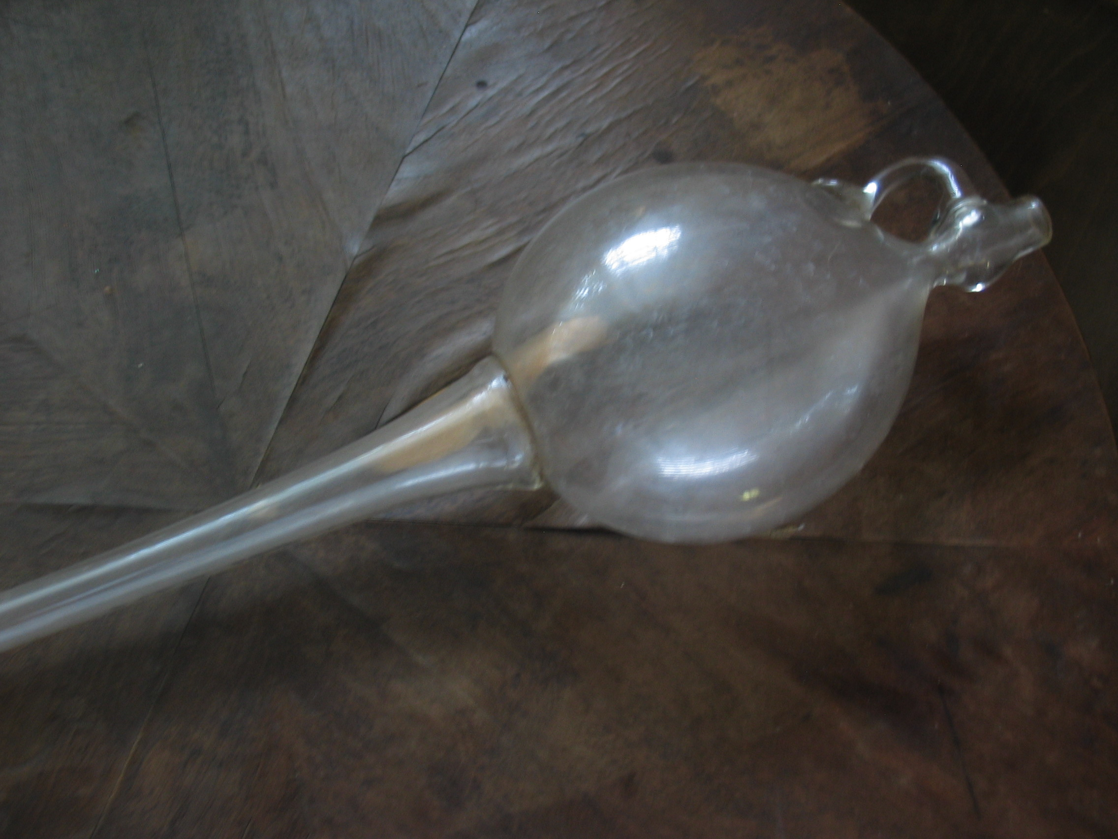 A glass wine sampler tube Üveg borlopó